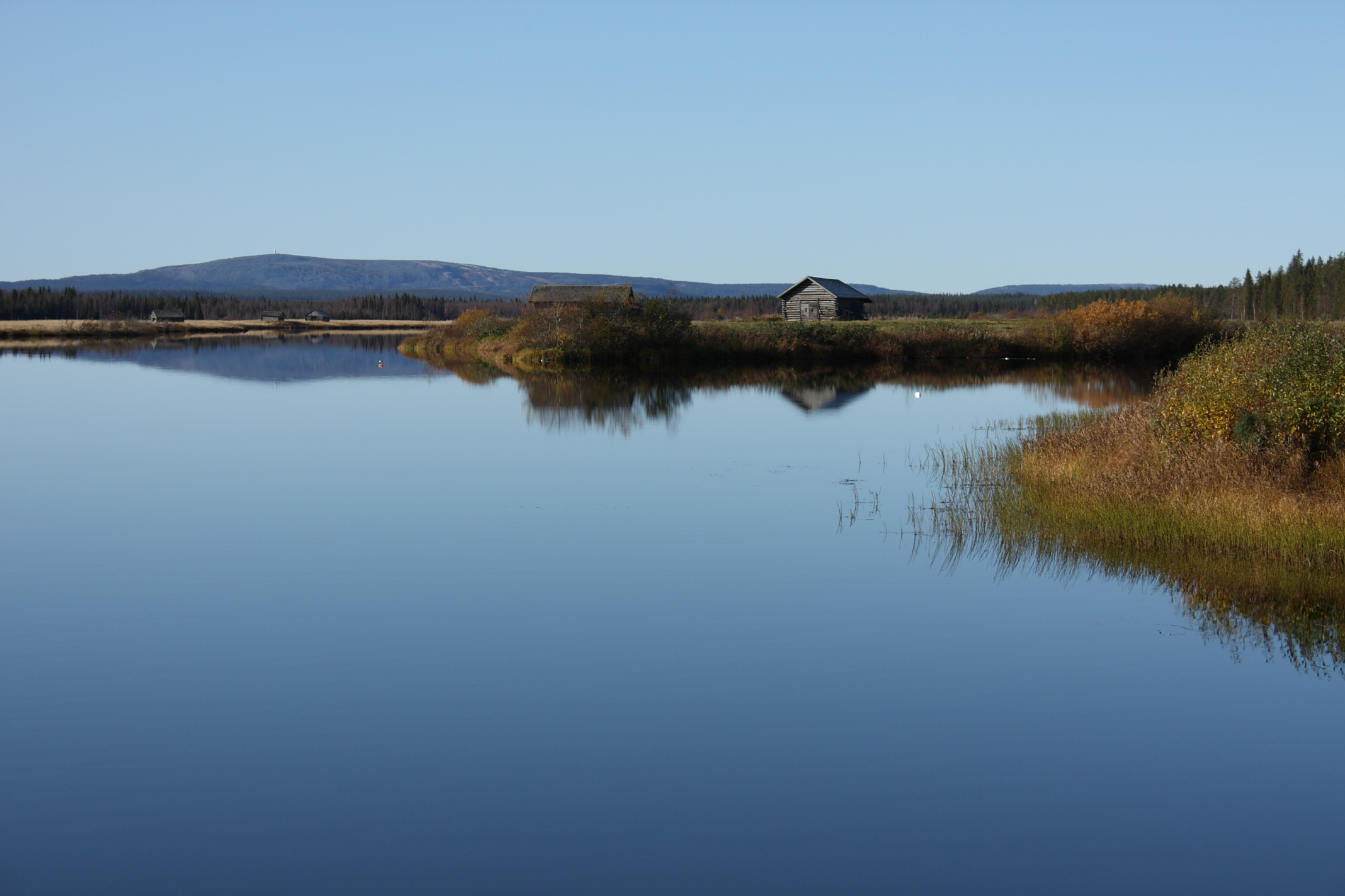 Houses at Suvanto village by Kitinen river in Pelkosenniemi, Finland. Suvanto is one of the very few villages in Lapland, Finland that wasn't destroyed during WWII.